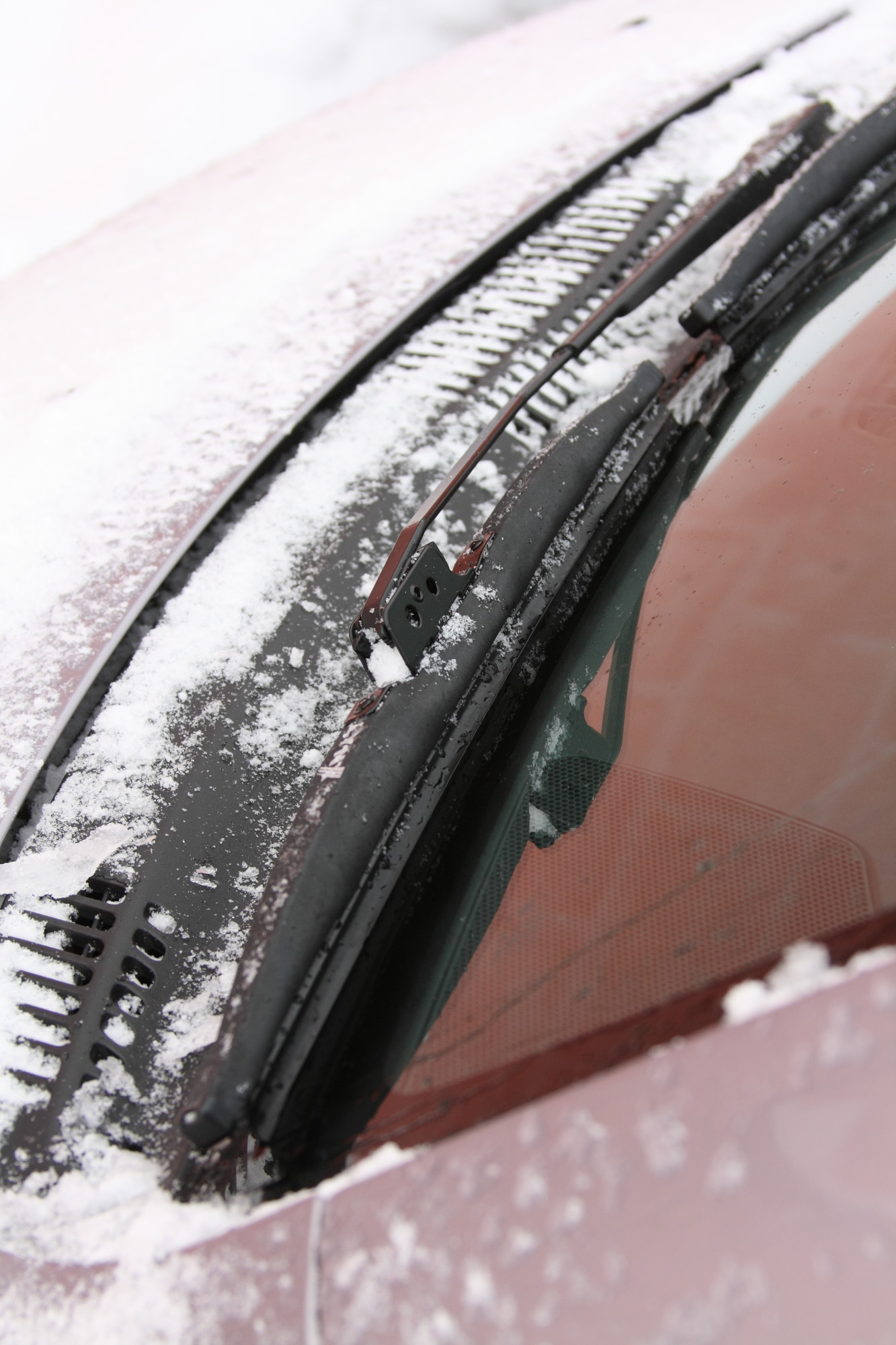 Winter windshield wipers